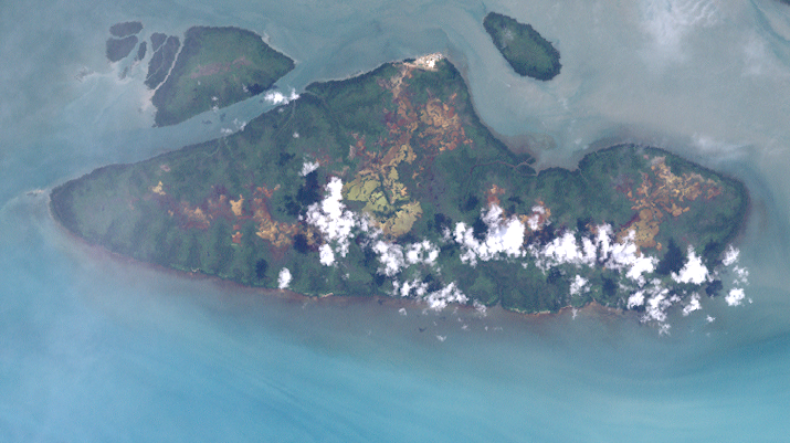 Boigu Island (center), Abusi Islands (left), Moimi Island (right), North Torres Strait Islands, Queensland, Australia Merged four close-by tiles from NASA-Landsat (30-meter resolution) mosaics. Other Source-Files are